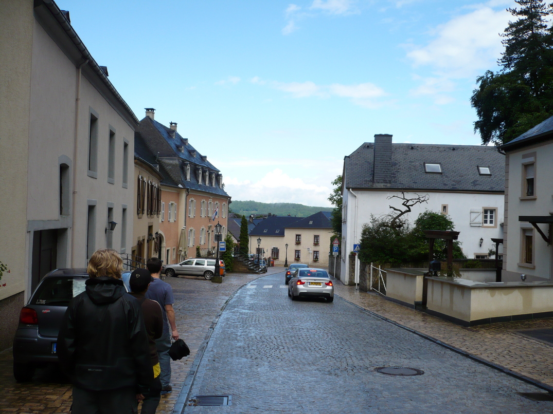 Town of Bourglinster, Luxembourg